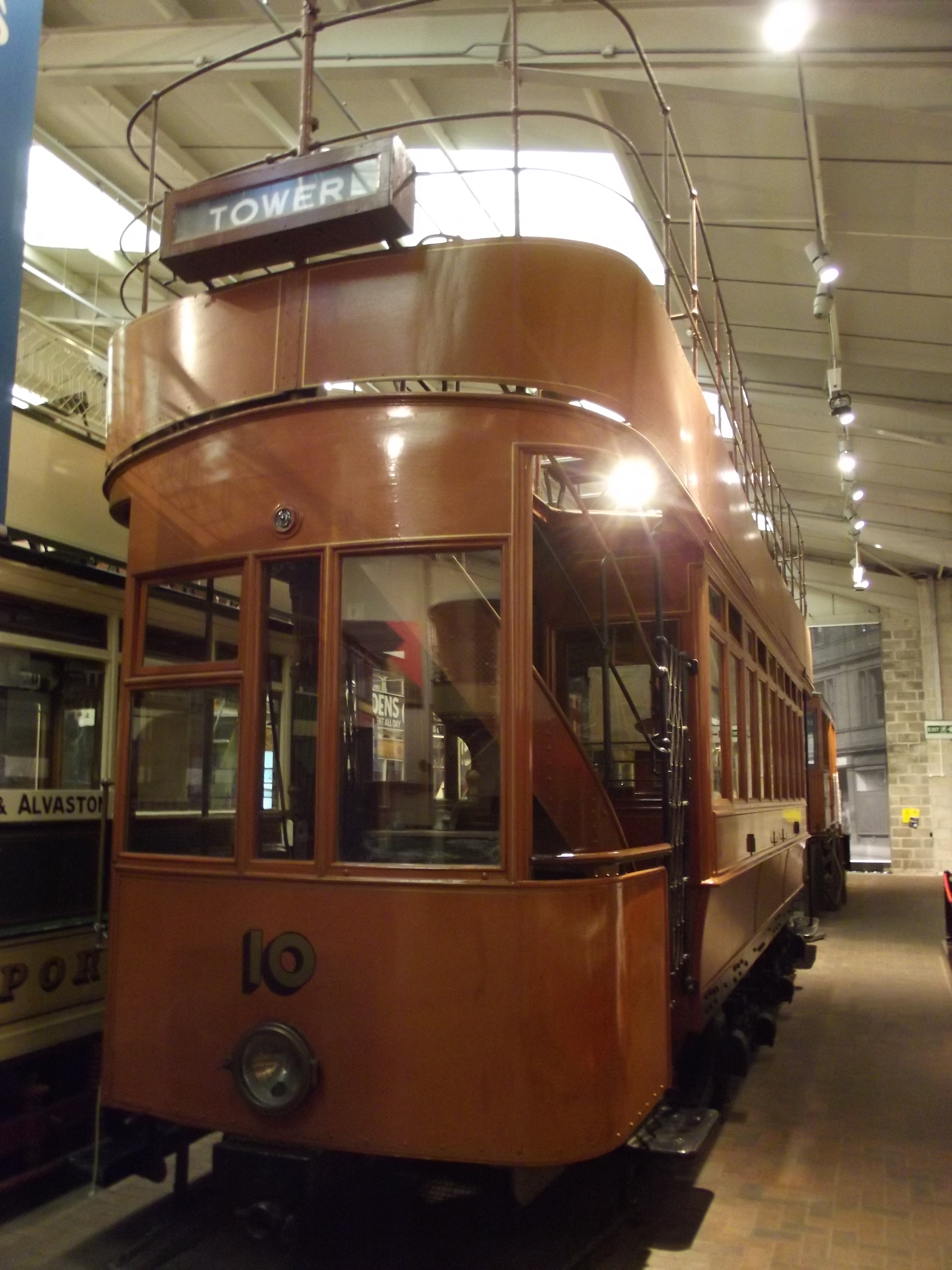 At the National Tramway Museum in Crich. The Museum started in the 1950s / 60s when most of the old tram networks in the cities of the UK were being closed down. The Tramway Museum Society was formed in the late 1940s when the decline began and they started to purchase the trams, track etc. The Crich site came to the attention of the society in the late 1950s. They later purchased the site. The Great Exhibition Hall - Century of Trams Exhibition Hill of Howth 10 from 1902. Hill of Howth This tram operated on a short but scenic route north of Dublin and is the only Irish car in the collection at Crich. On display in the Exhibition Hall. Tower